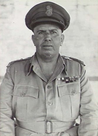 Brigadier W.C.D. Veale MC DCM, Chief Engineer in Lae, New Guinea, 4 October 1945